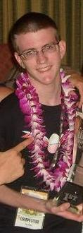 Raymond Rizzo